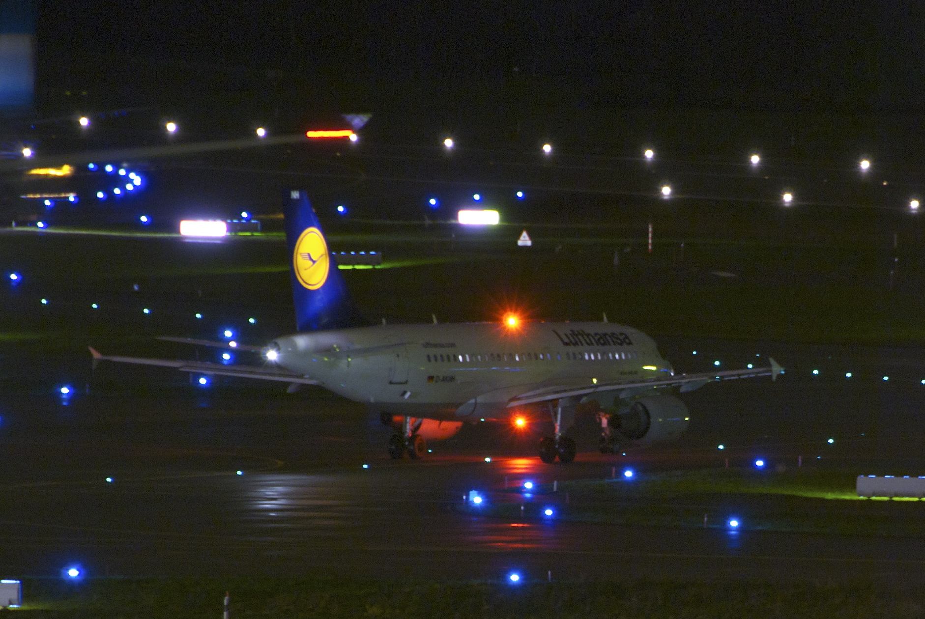 Lufthansa Airbus A319-112; D-AKNH@ZRH;26.11.2012/680bo